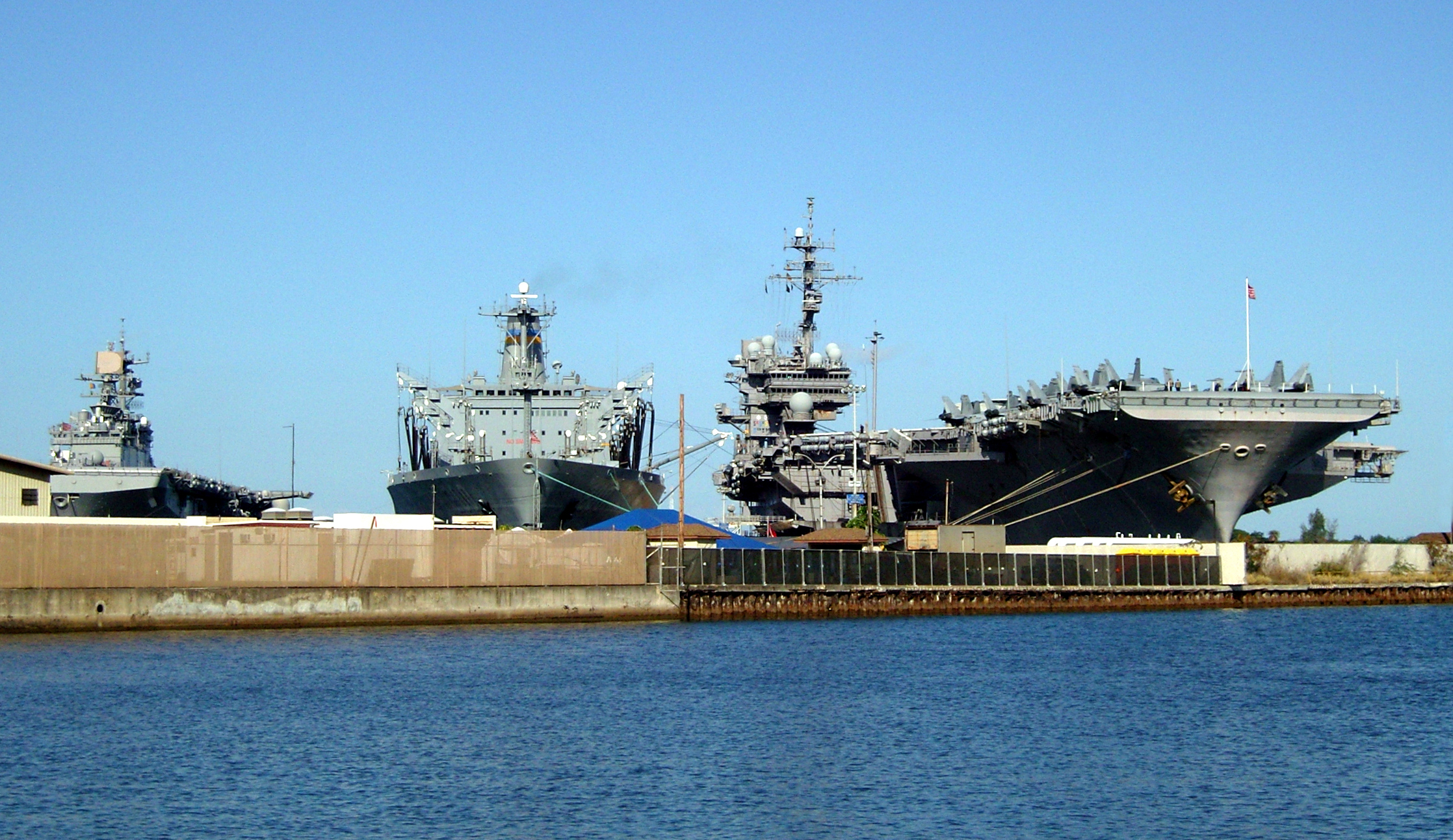 The USS Kittyhawk in port at Pearl Harbor, on July 6, 2008. She was in port to participate in RIMPAC exercises in place of the damaged USS George Washington. This picture was taken from the shore of the USS Arizona Memorial.